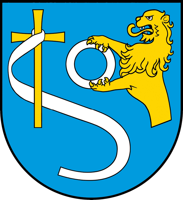 Herb gminy Gołymin-Ośrodek.